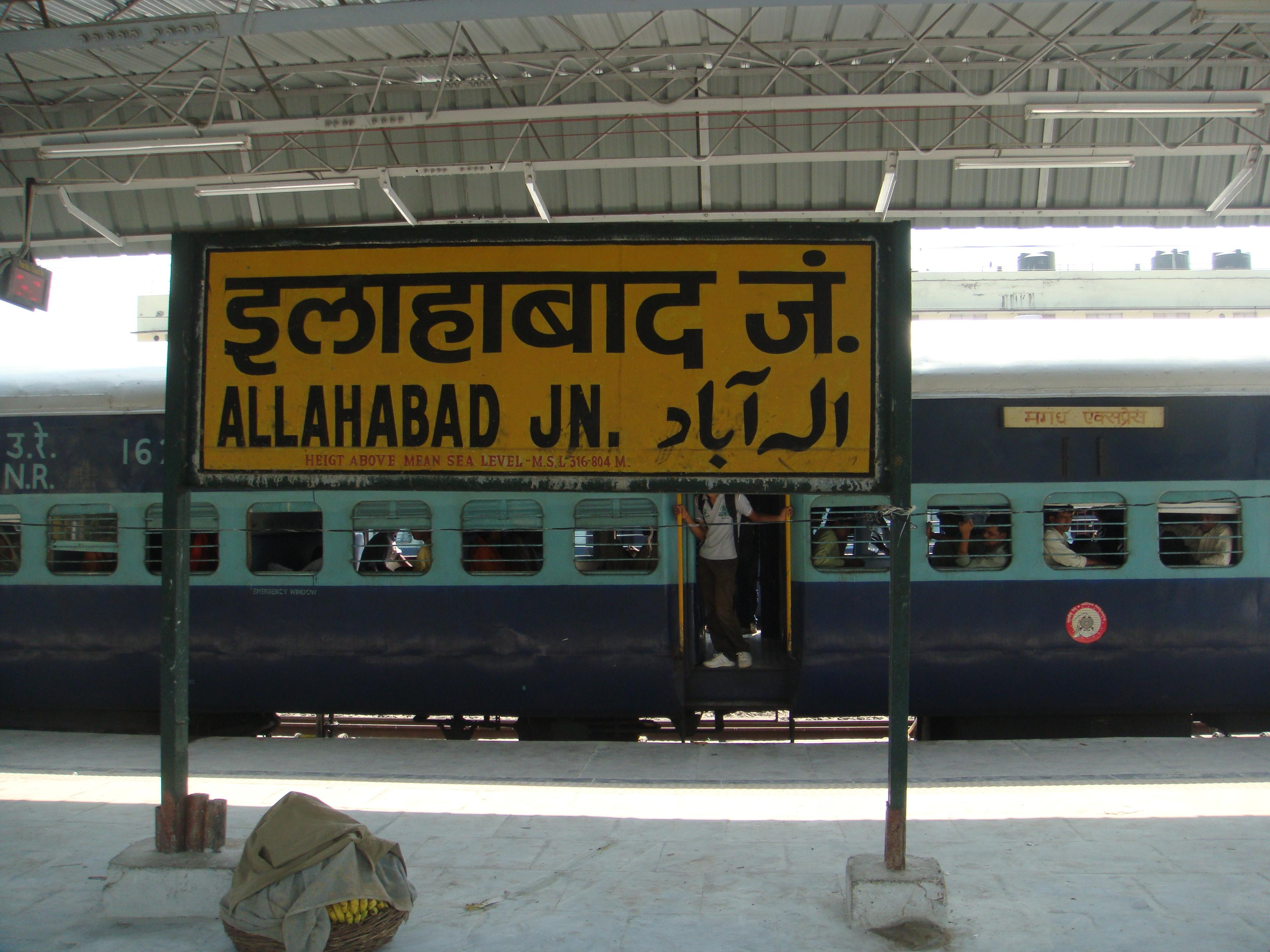 Allahabad Junction